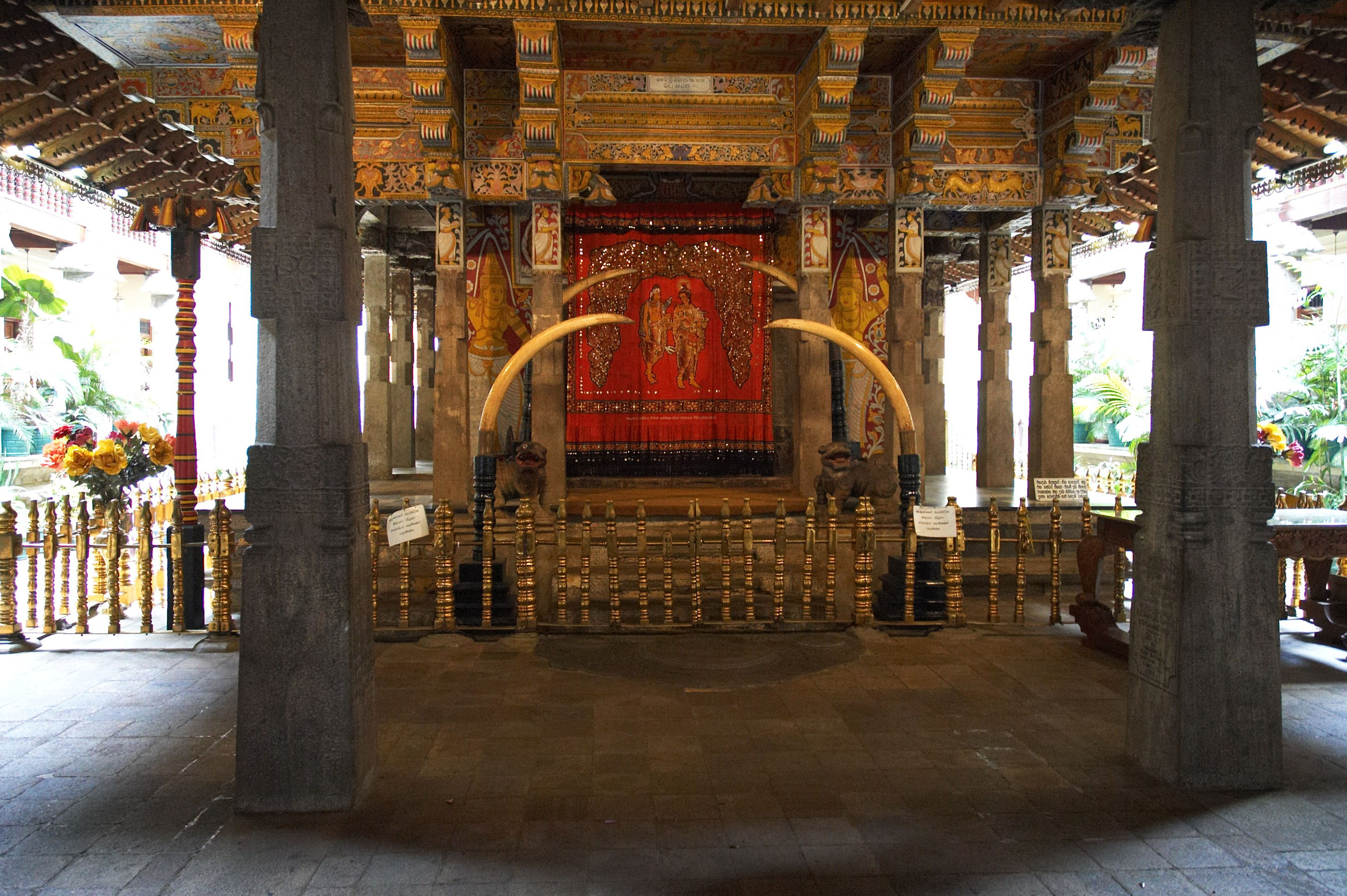 Temple Dalada Maligawa in the city Kandy in Sri Lanka - Google Maps - Google Earth